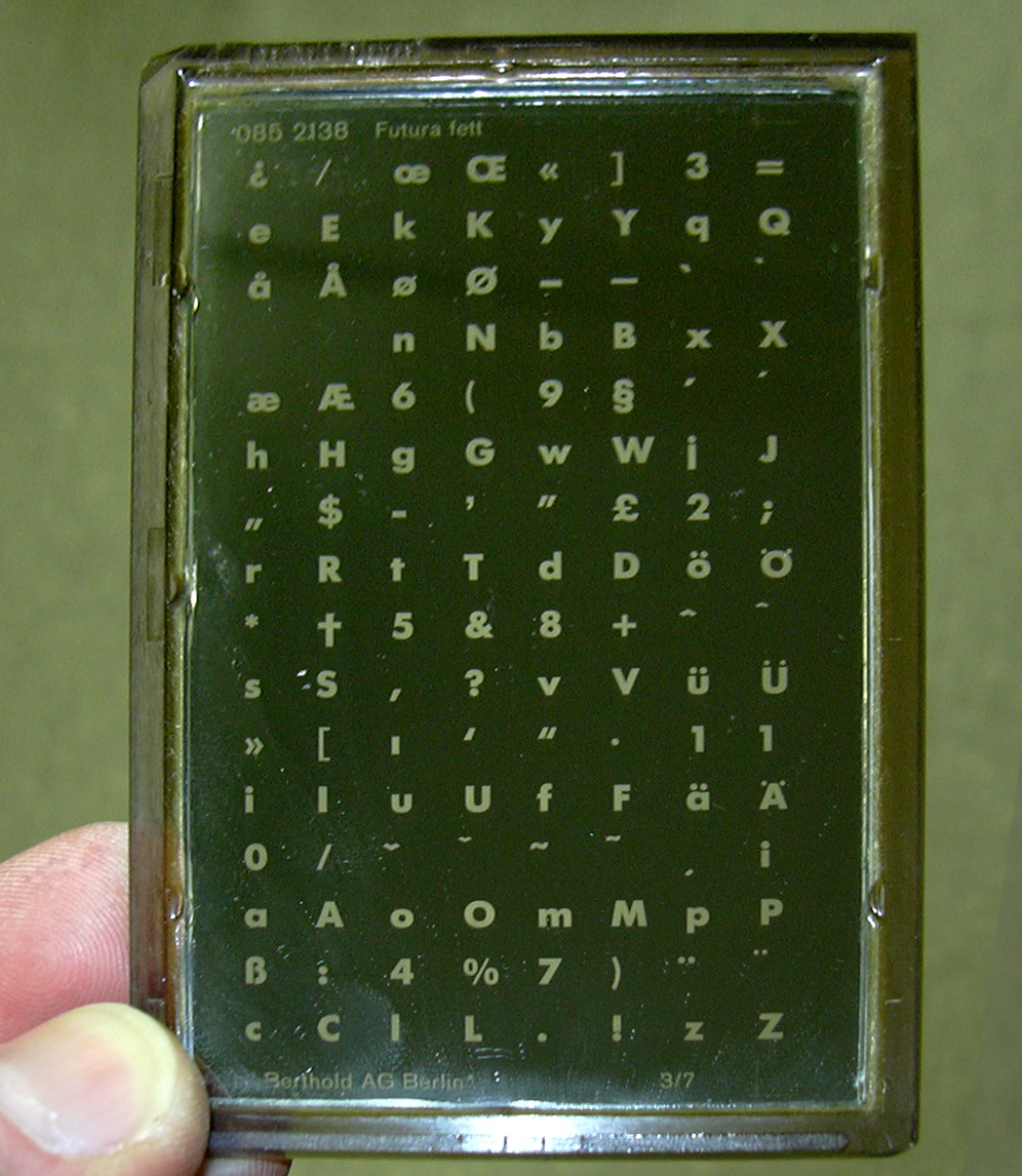 diatronic typeface plate for the Berthold fotosetter